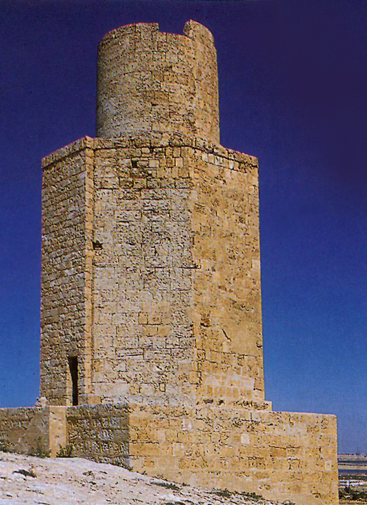 This monument is at Abusir (ancient Taposiris Magna), 48 kilometres (30 mi) southwest of Alexandria, next to the remains of an ancient temple to Osiris - hence the name. (not at Abou Kir to the east of Alexandria) - OpenStreetMap(Info)